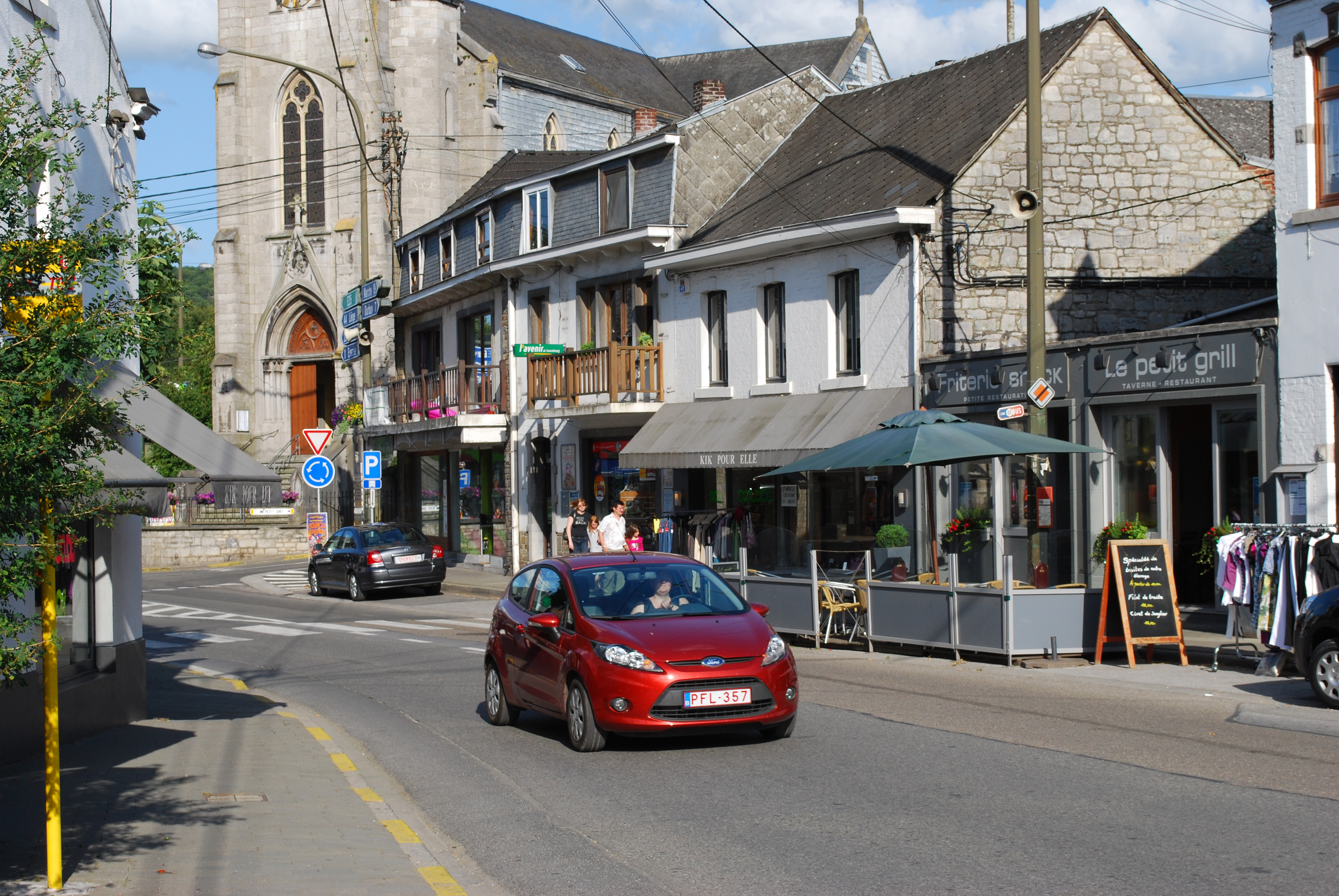 Barvaux-sur-Ourthe (Belgium): the center.